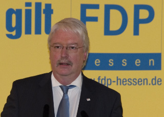 The German politician Jörg-Uwe Hahn on a election campaign in Darmstadt.